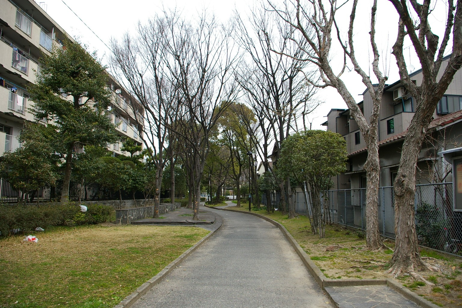 Higashi ward